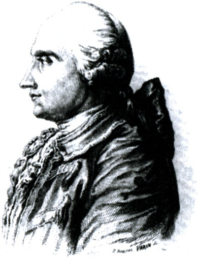 Denis-Pierre-Jean Papillon de la Ferté (1727-1794), administrator in the French Royal Household.